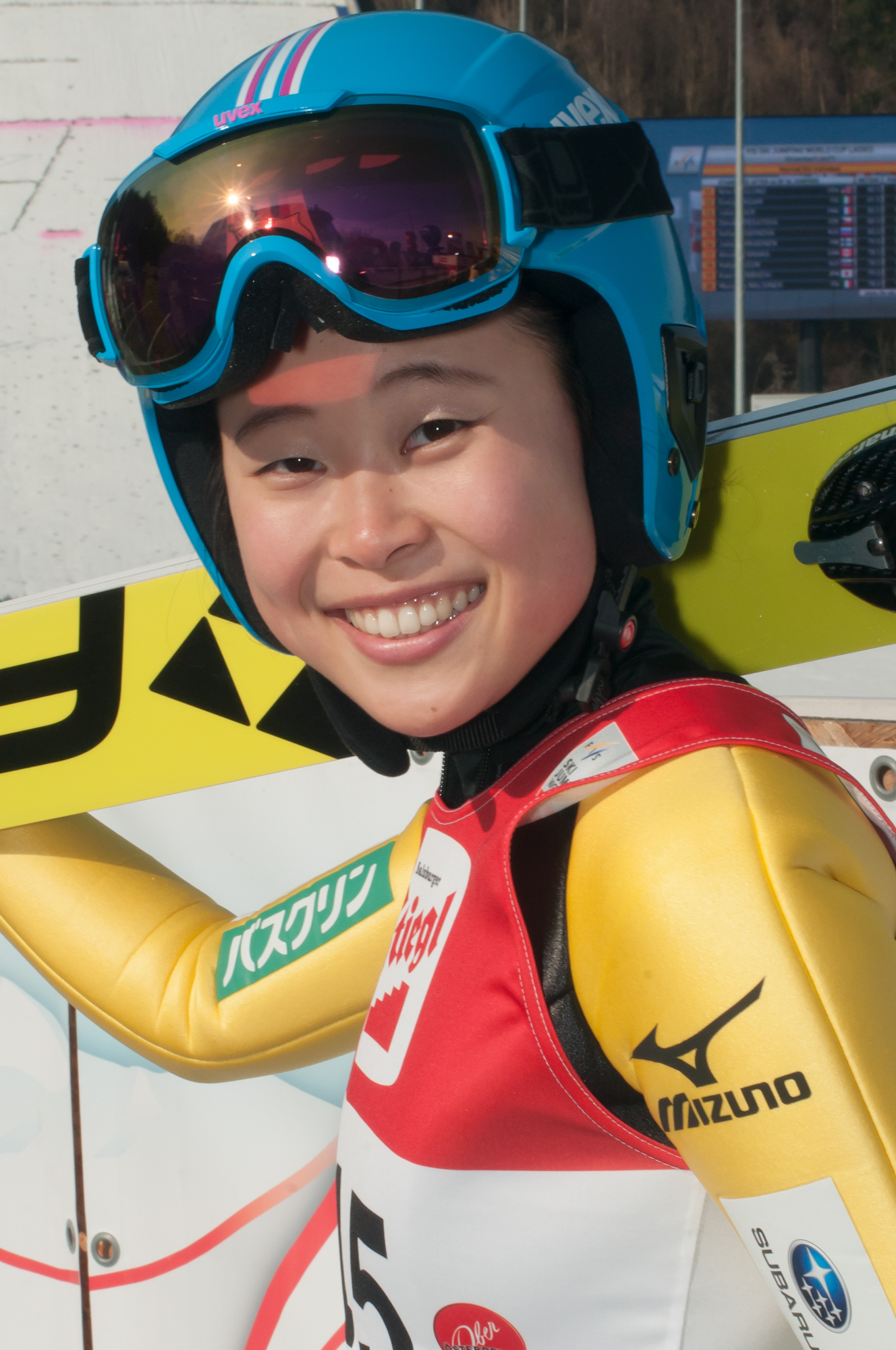 FIS Ski Jumping World Cup Ladies Hinzenbach 2016-02-07